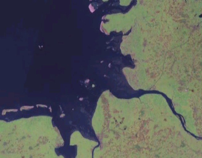 Satellite image of the souteastern part of the German Bight, i.e. the Heligoland Bight, and adjacent coastal areas of northwestern Germany.